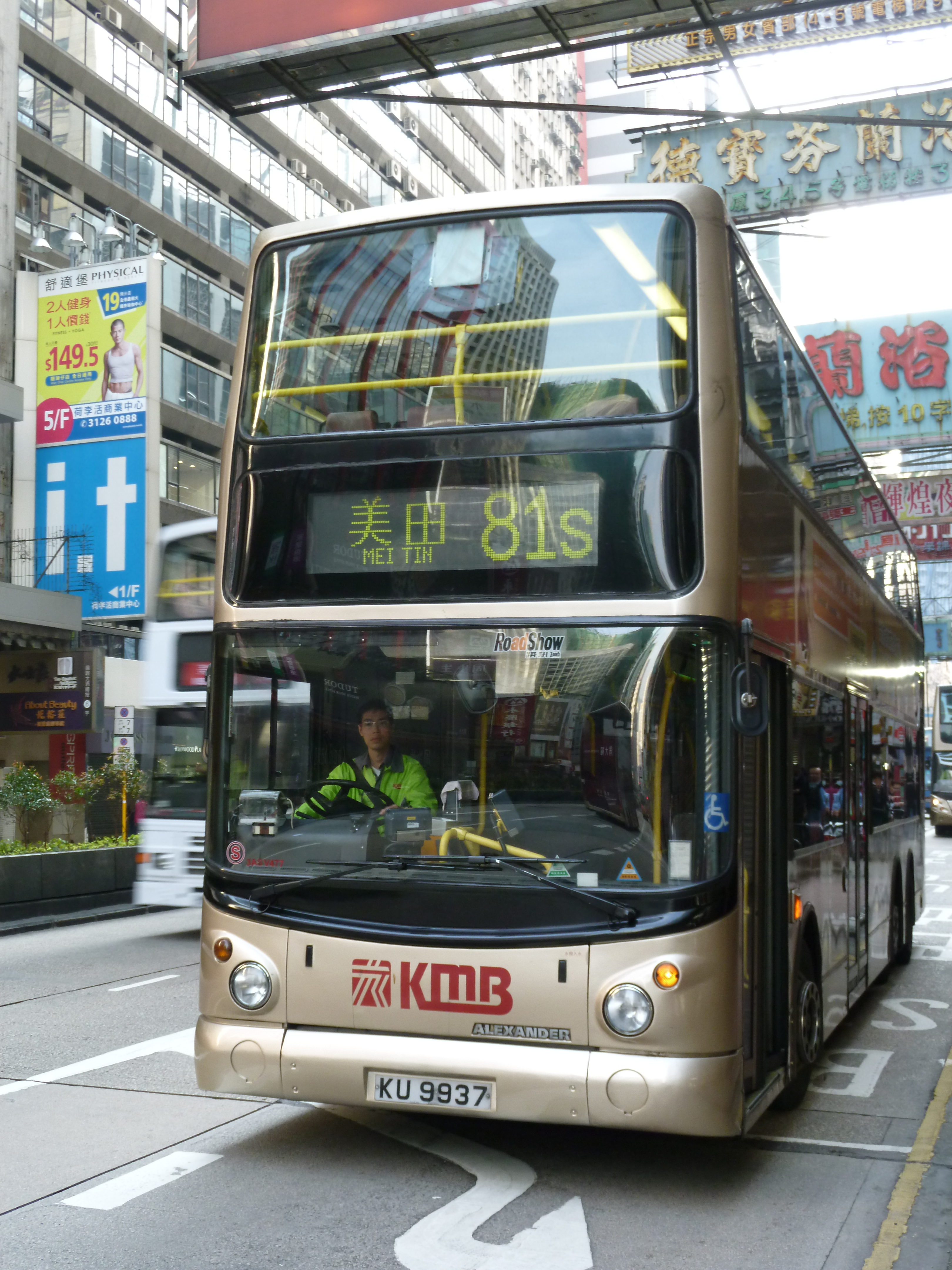 KMB Route 81S (Nathan Road, Mong Kok)中文（香港）: 九龍巴士81S線 (旺角彌敦道)